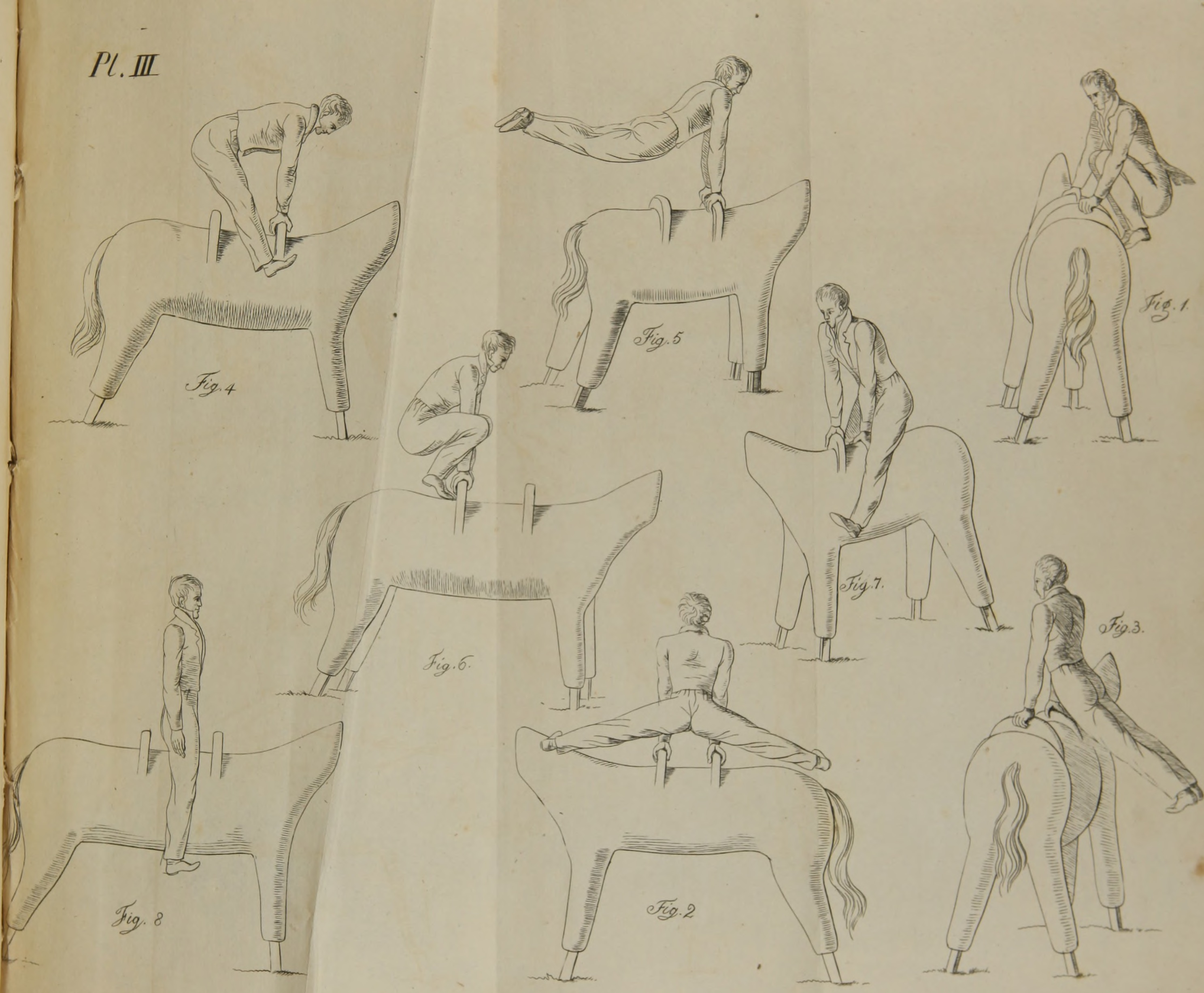 Identifier: Title: A treatise on gymnasticks Year: 1828 (1820s) Authors: Jahn, Friedrich Ludwig, 1778-1852 Butler, Charles, translator Subjects: Gymnastics Publisher: Northampton, Mass. : S. Butler Text Appearing Before Image: ' Text Appearing After Image: '